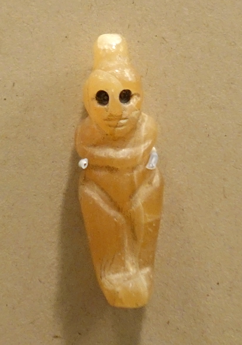 Exhibit in the Oriental Institute Museum, University of Chicago, Chicago, Illinois, USA. This work is old enough so that it is in the public domain.